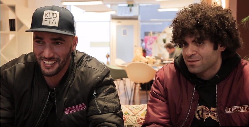 Patser interview with Adil El Arbi and Bilall Fallah